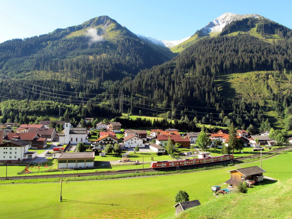 Hamlet Lähn, View from North